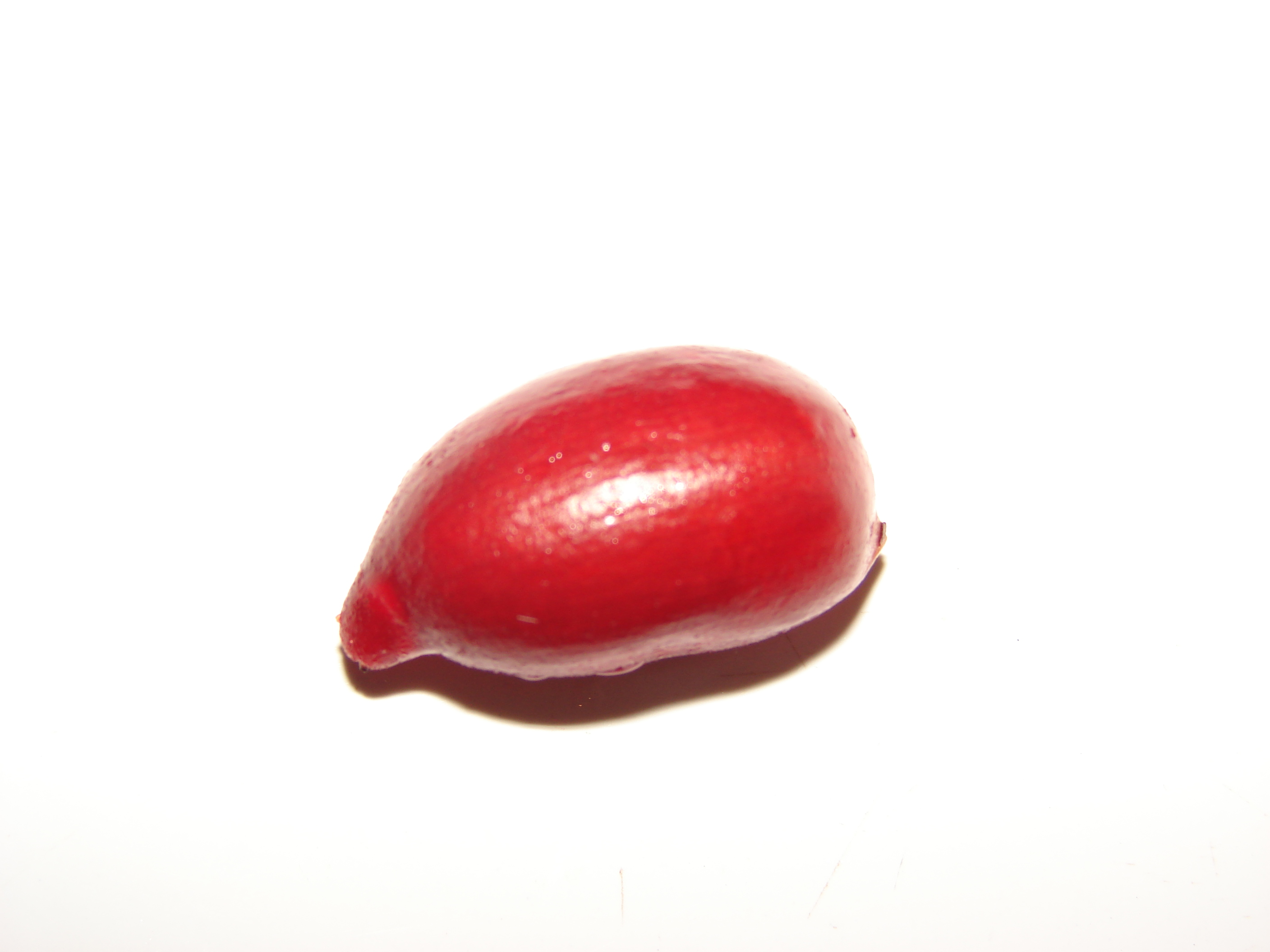 Synsepalum dulcificum (seeds). Location: Maui, Makawao